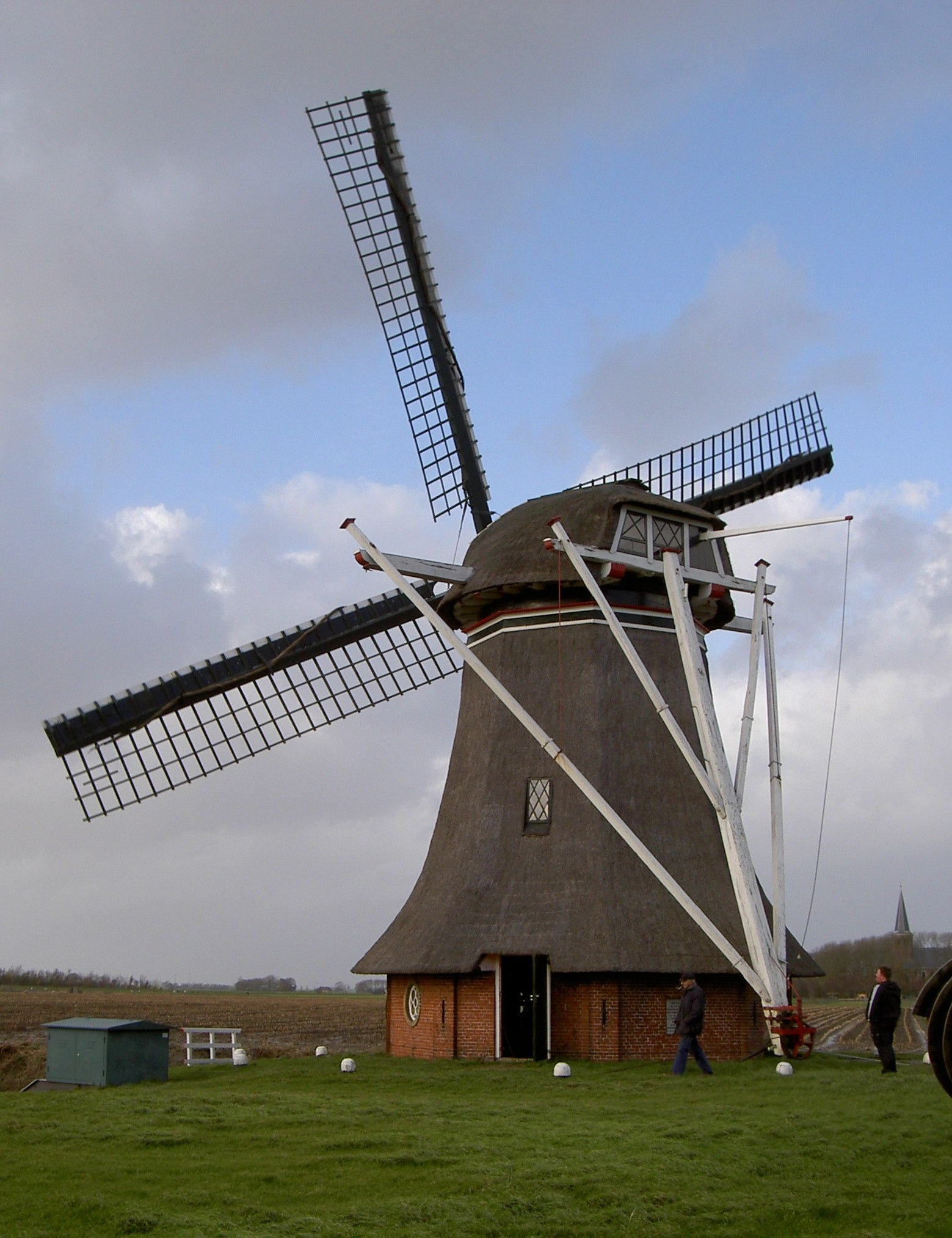 Windmolen in Friesland.